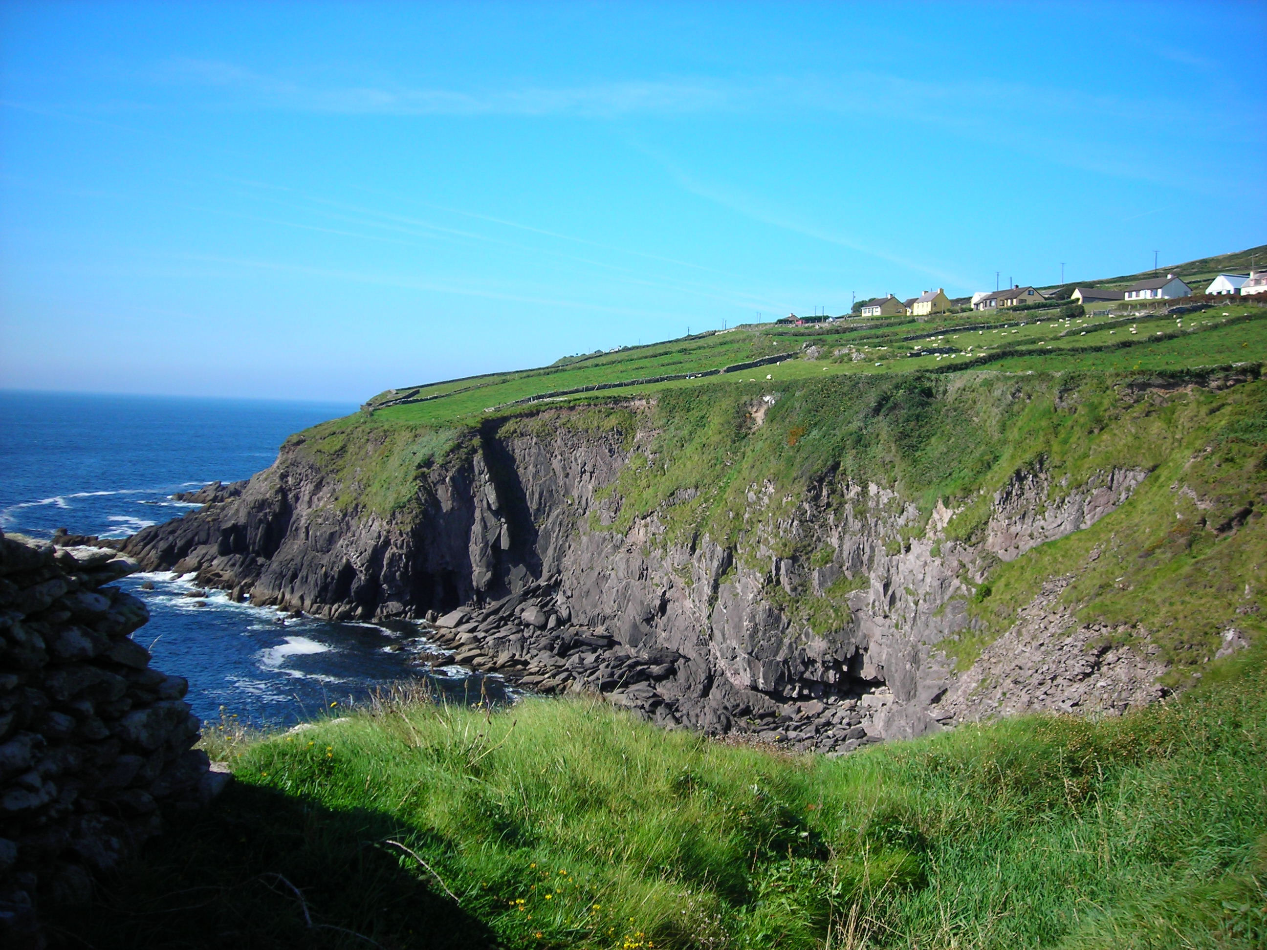 Slea Head from Dunbeg Fort, Dingle Peninsula, Kerry, Ireland.